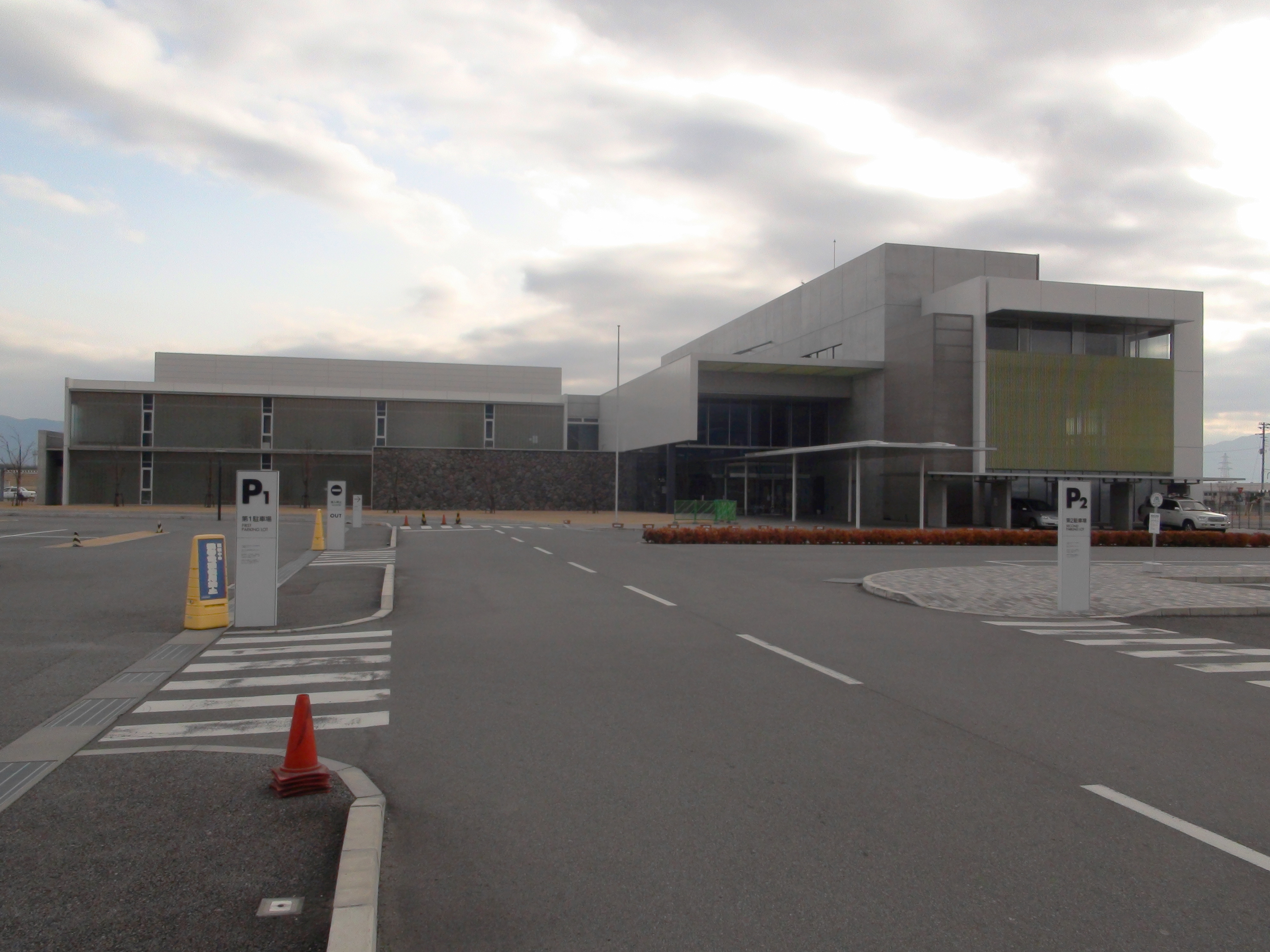 Yamanashi General Traffic Center